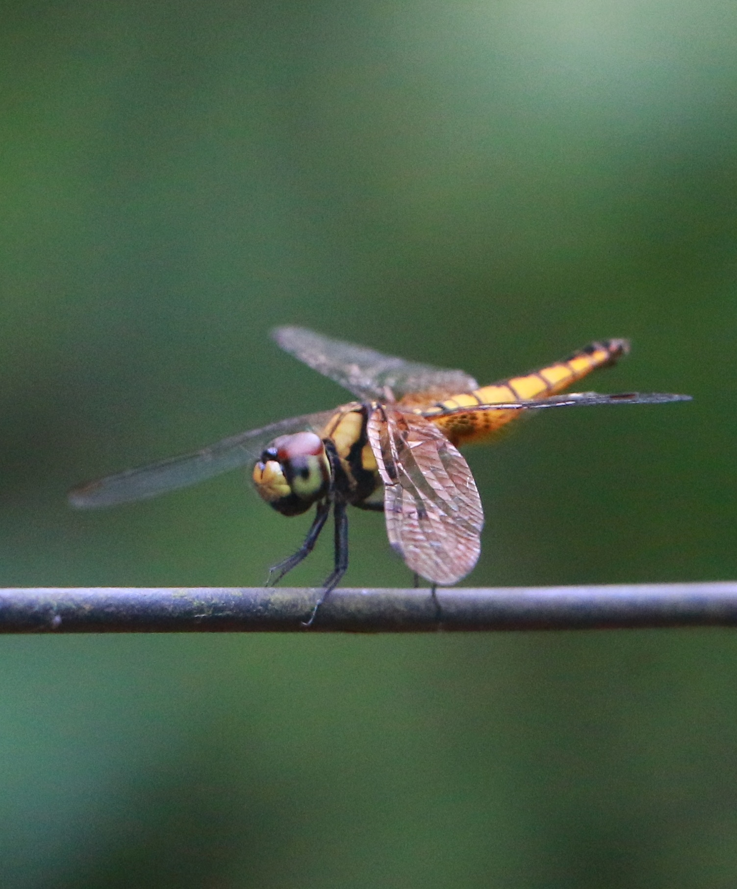 Scarlet Marsh Hawk ,Aethriamanta brevipennis ,female